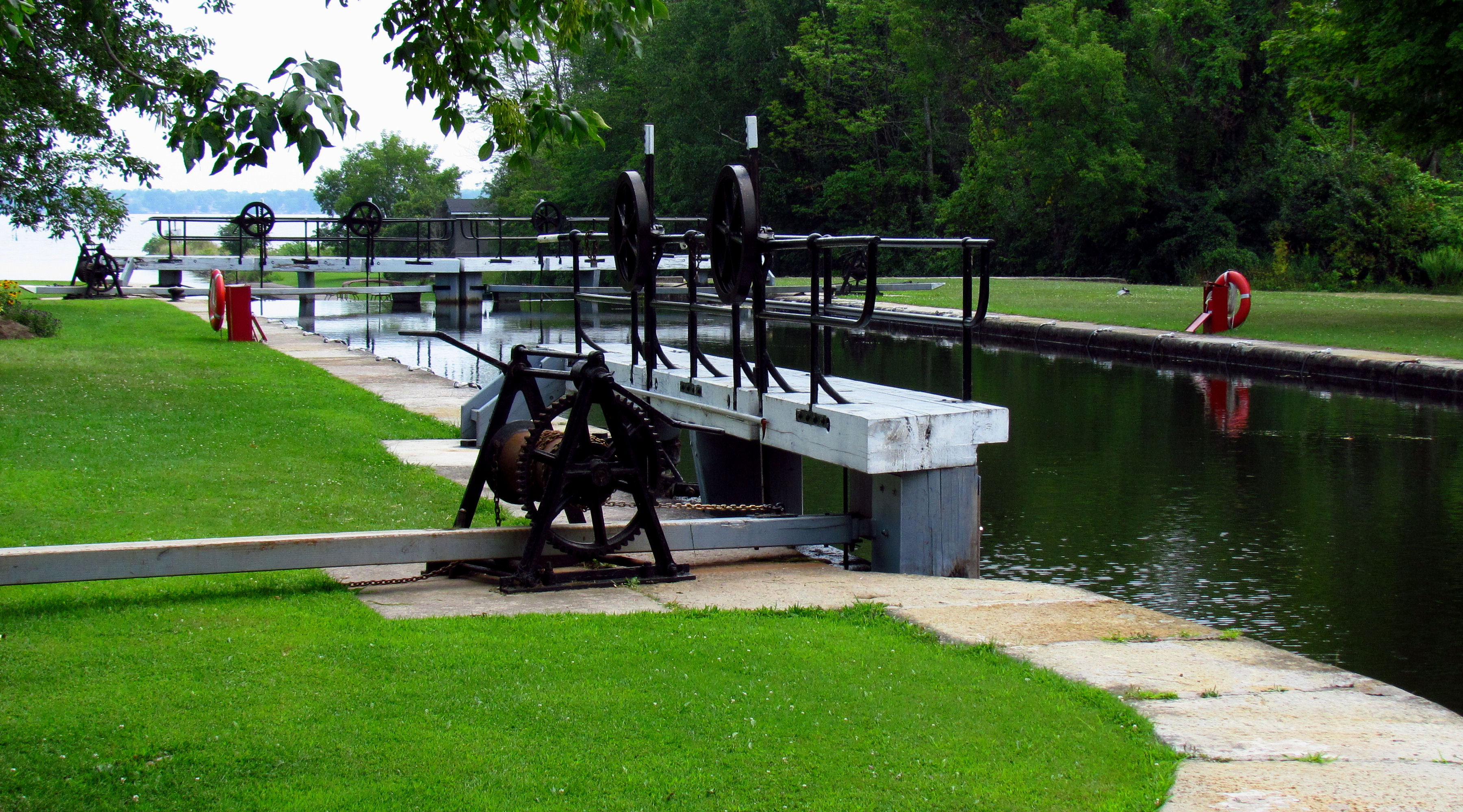 Lower Beveridges Lock, Tay Canal (lock 33), Ontario, Canada